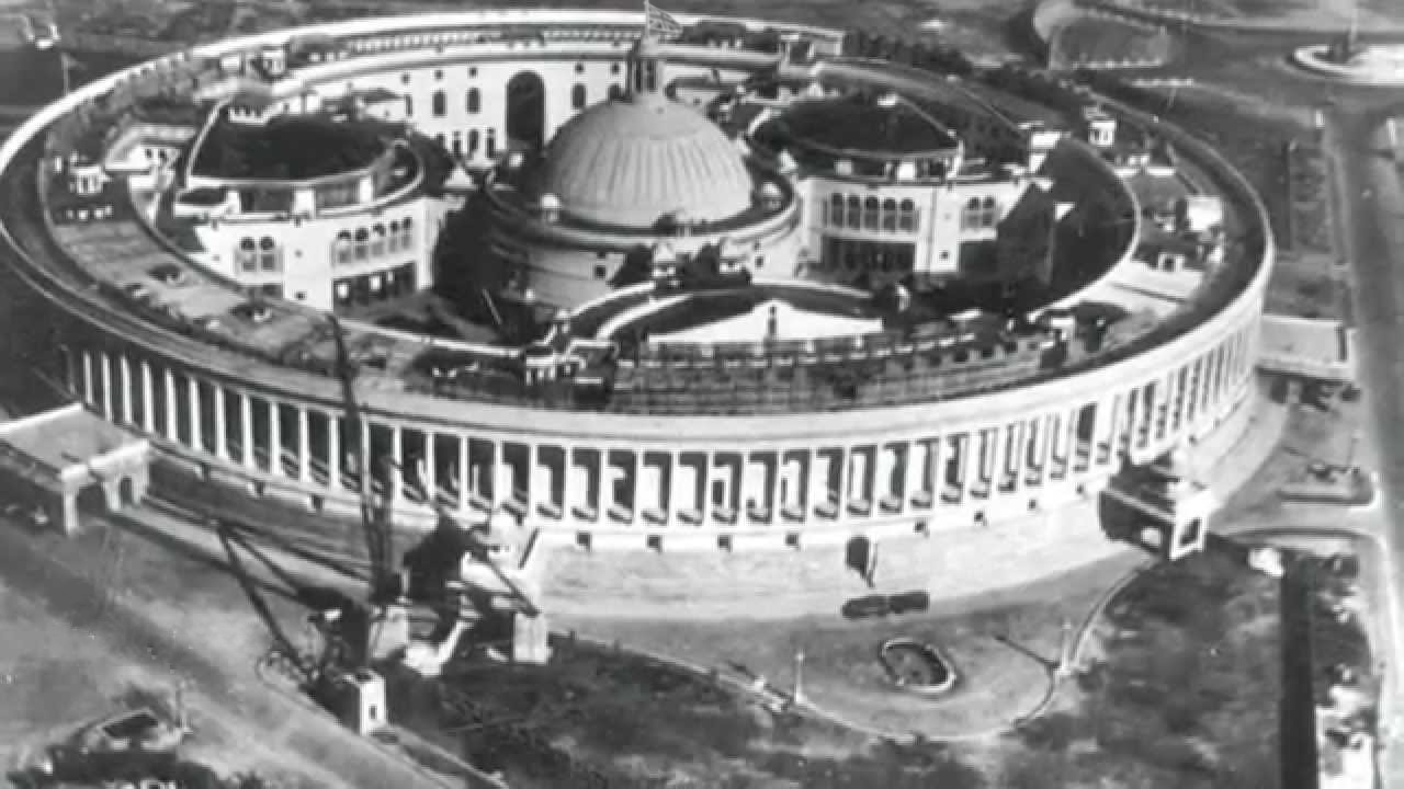 A 1926 photo of the Parliament House. This photo can be freely used as it is ~100 years old, from a former country and the author has deceased.